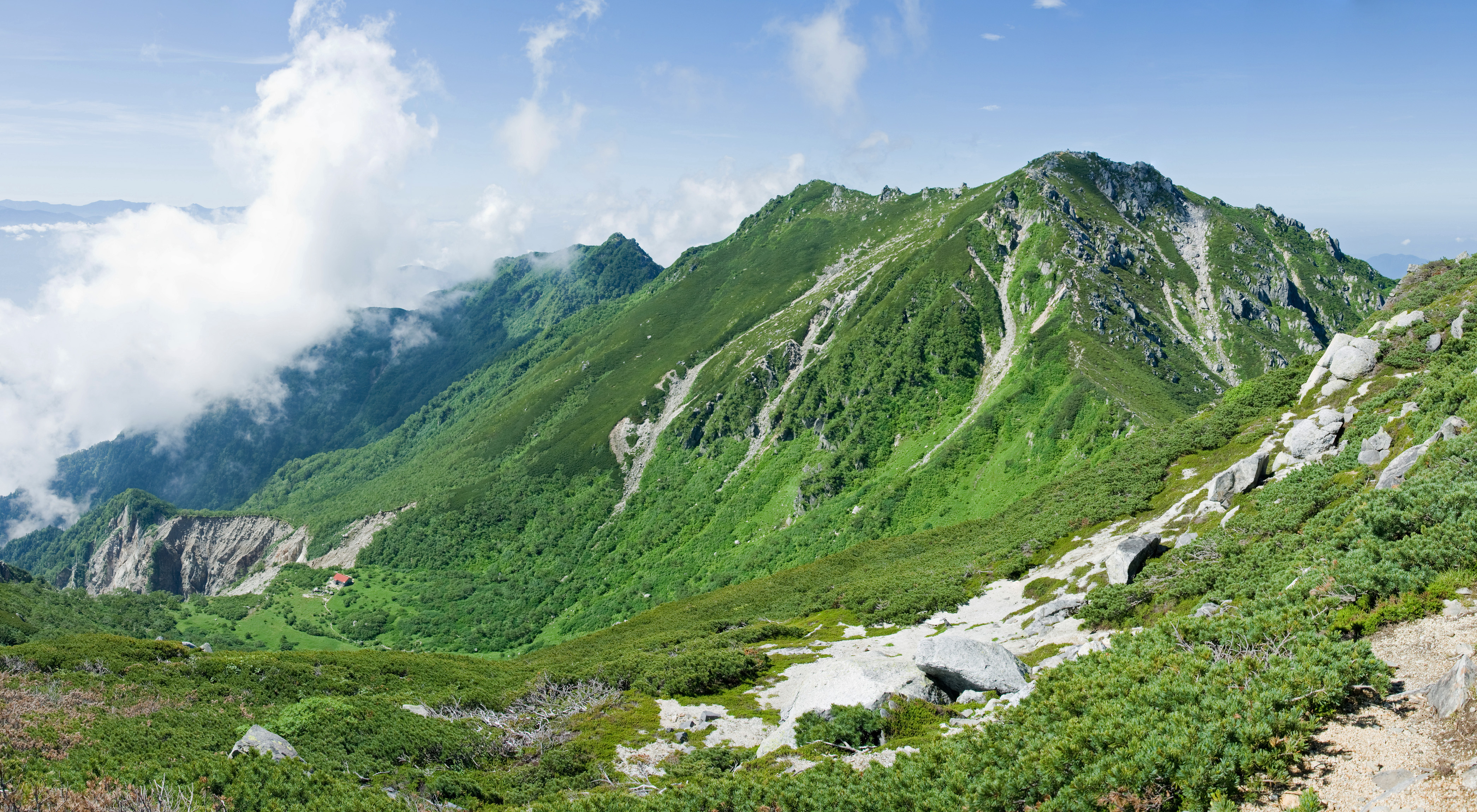 Mt.Minamikomagatake and Sribachikubo-cirque as seen from Mt.Akanagidake in Mts.Kiso, Nagano Pref., Japan.